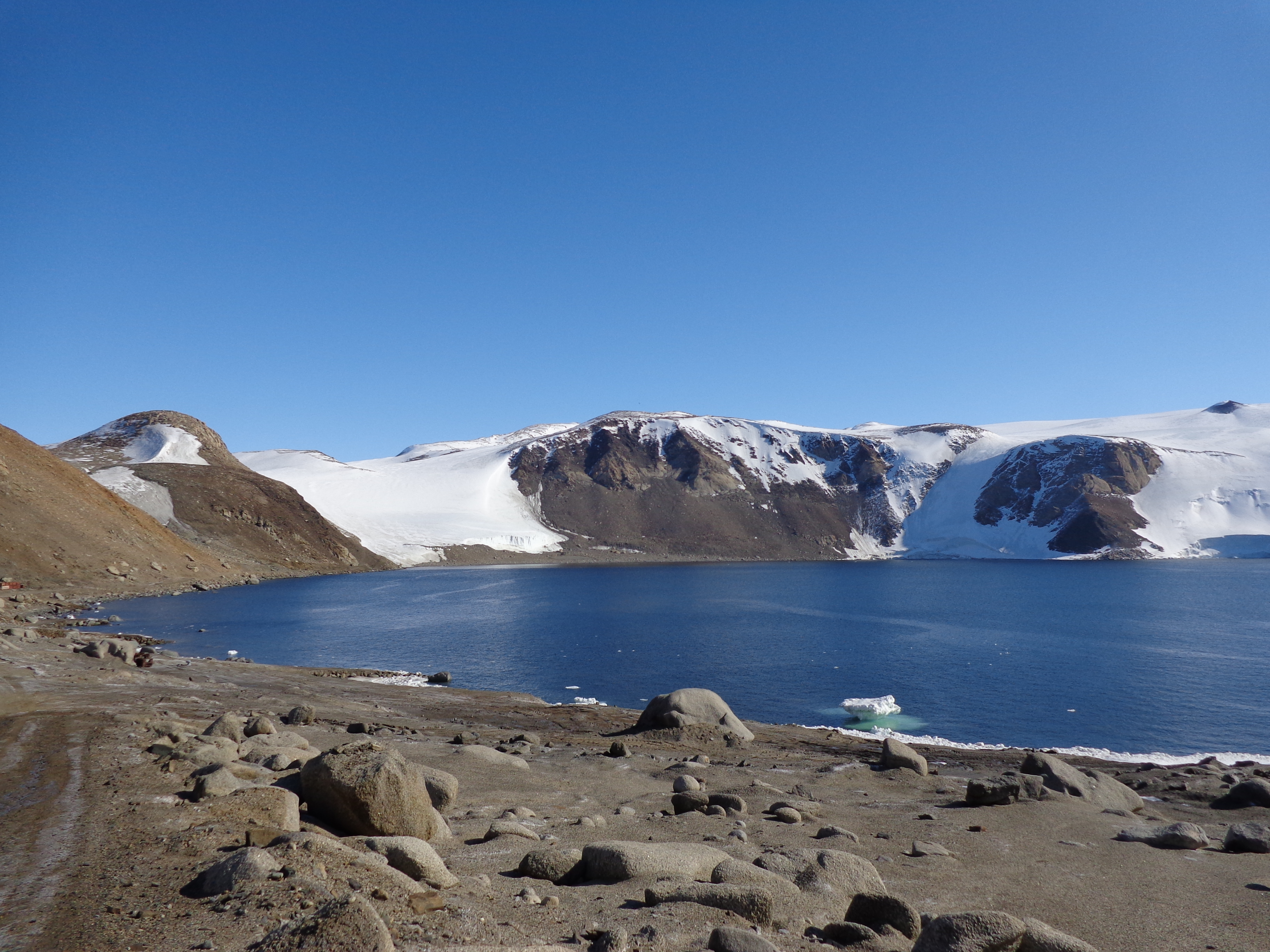 Tethys Bay, Ross Sea, Antarctica